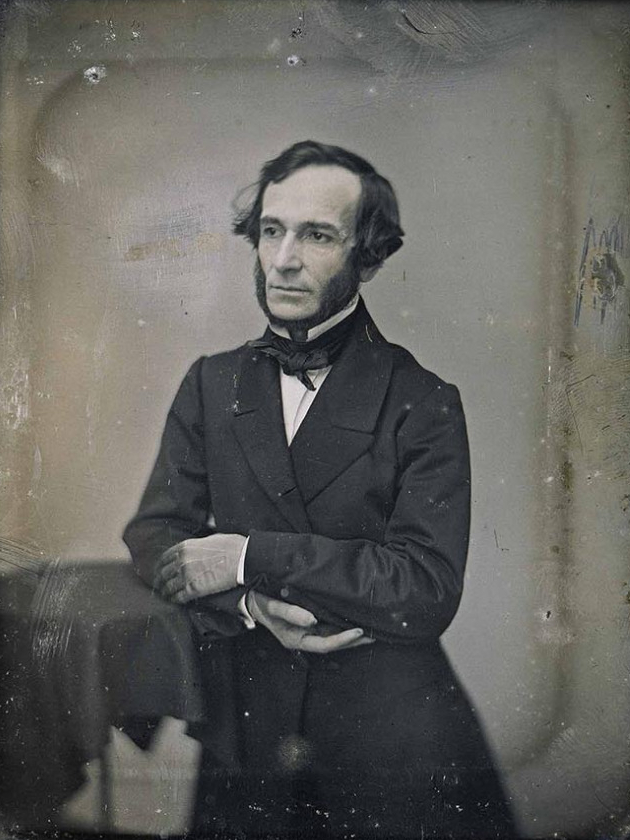 Daguerreotype of Argentine political theorist and diplomat, Juan Bautista Alberdi. The photo was taken in Valparaíso, Chile, where Helsby had his studio.